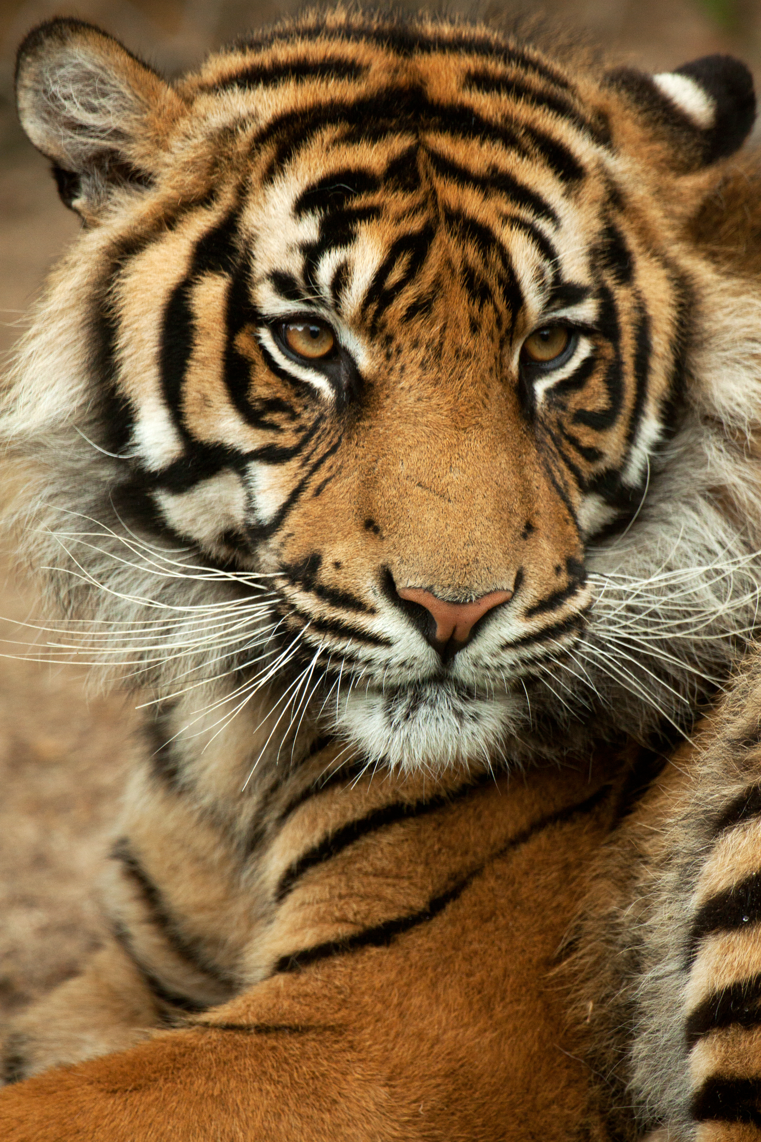 Sumatra Tiger - Panthera tigris sumatrae - Photography taken at the Lisbon Zoo